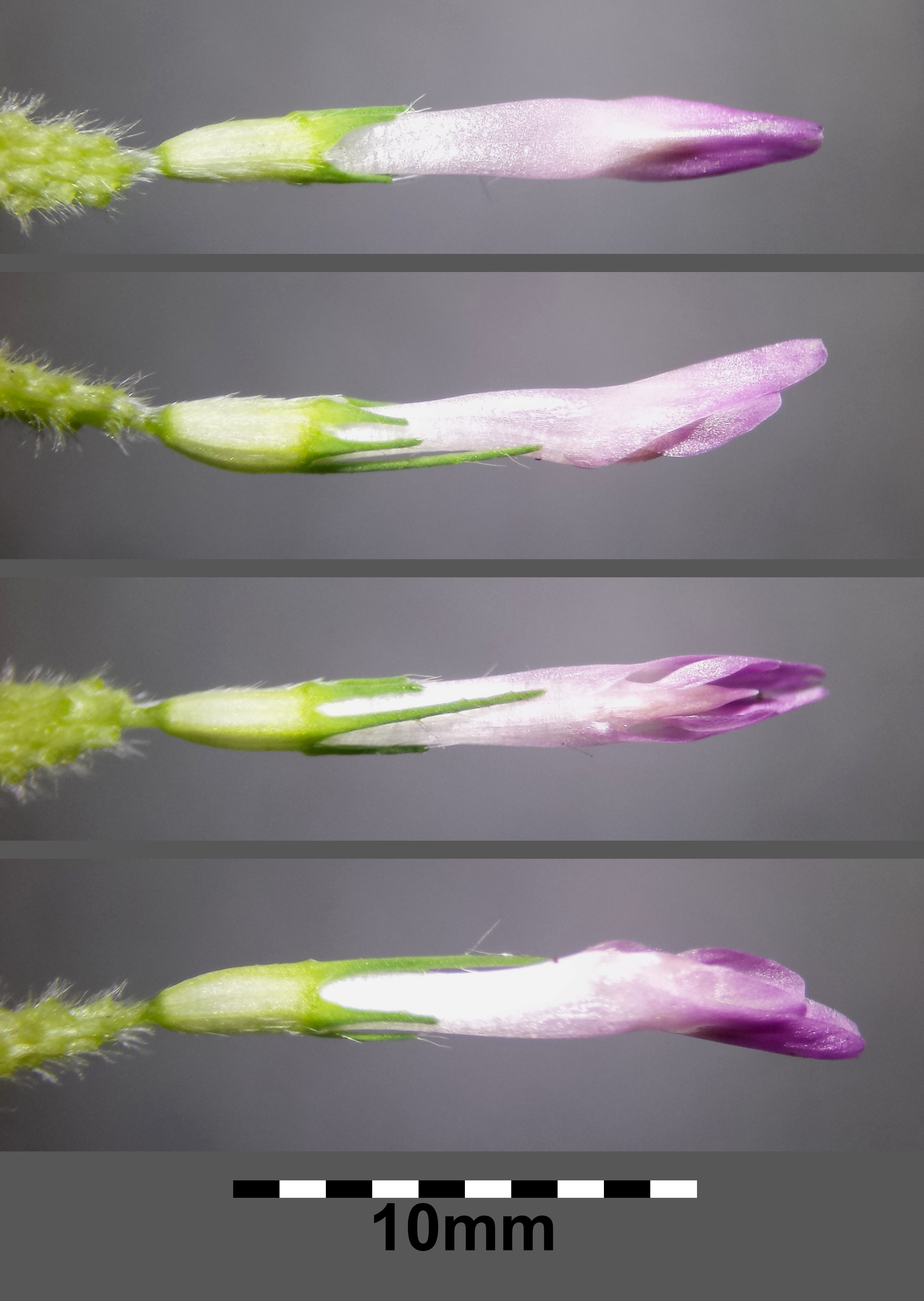 Flower Taxonym: Trifolium pratense subsp. pratense ss Fischer et al. EfÖLS 2008 ISBN 978-3-85474-187-9 Location: Neue Donau, Vienna-Floridsdorf - ca. 160 m a.s.l. Habitat: dry meadows